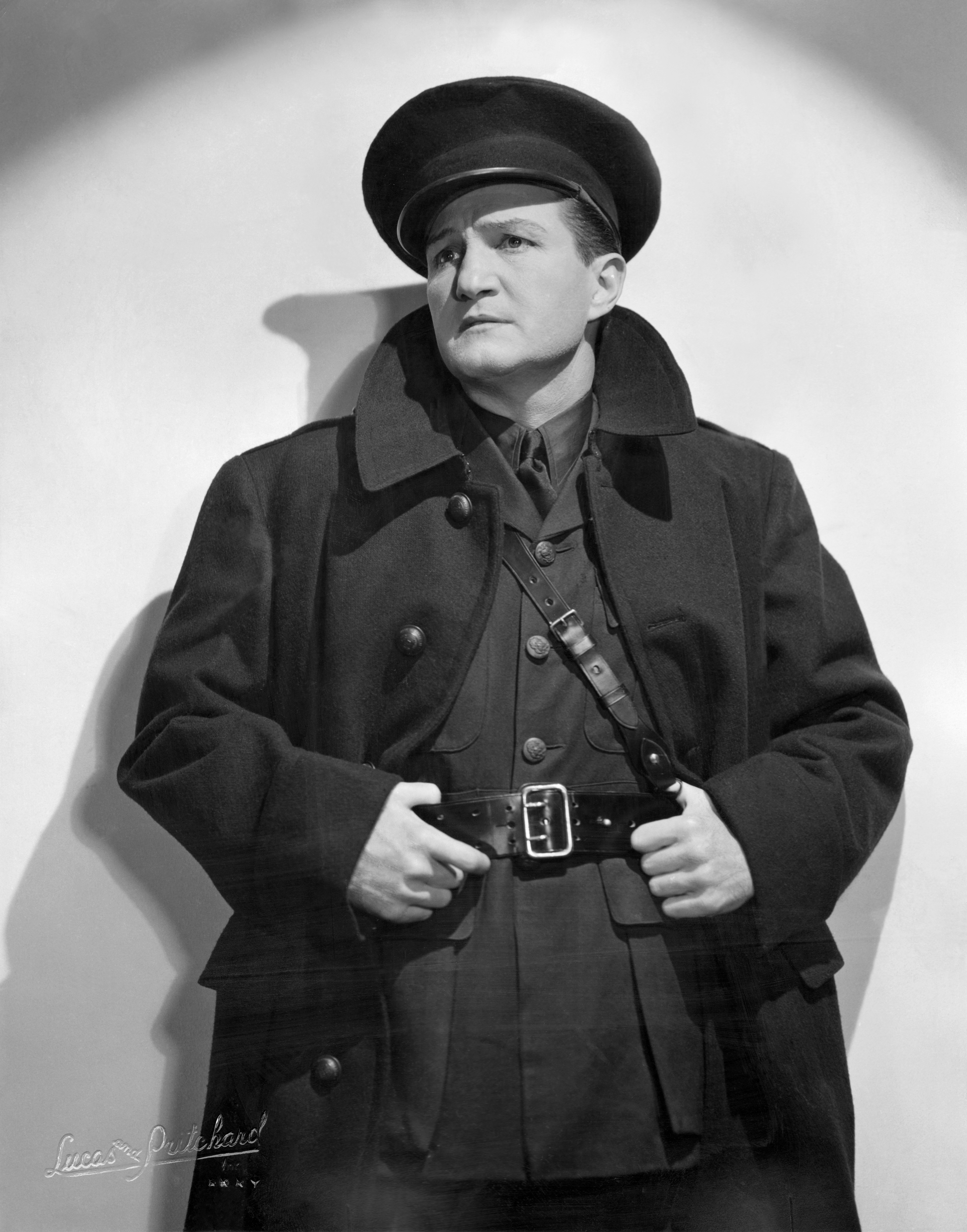 Portrait photograph of Tom Powers as Brutus in the Mercury Theatre touring production of Caesar. The five-month national tour began January 17, 1938; Powers later succeeded Orson Welles in the Broadway production.